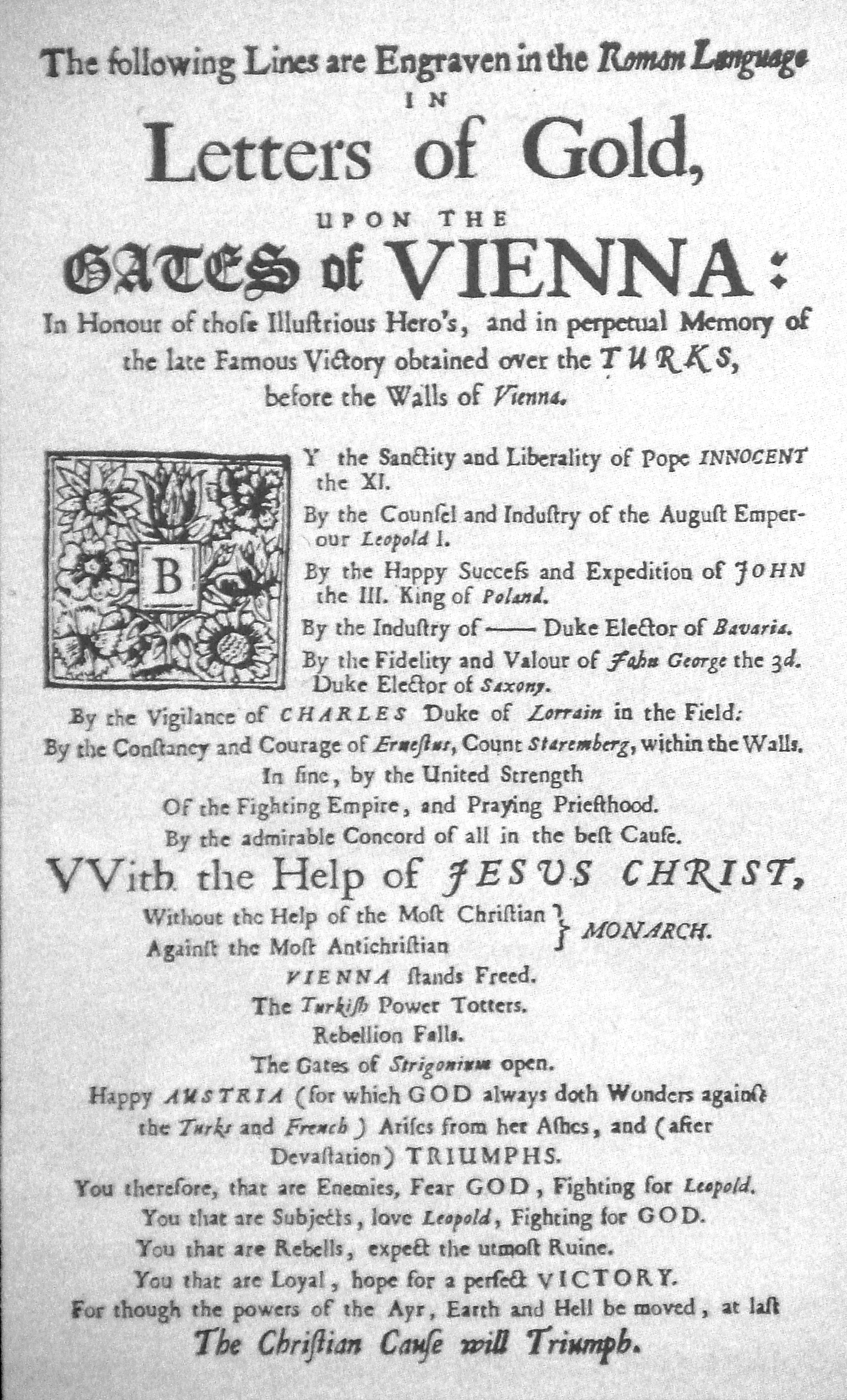 English_pamphlet_criticizing_Louis_XIV_for_his_lack_of_support_in_the_Siege_of_Vienna_1683_alt.jpg